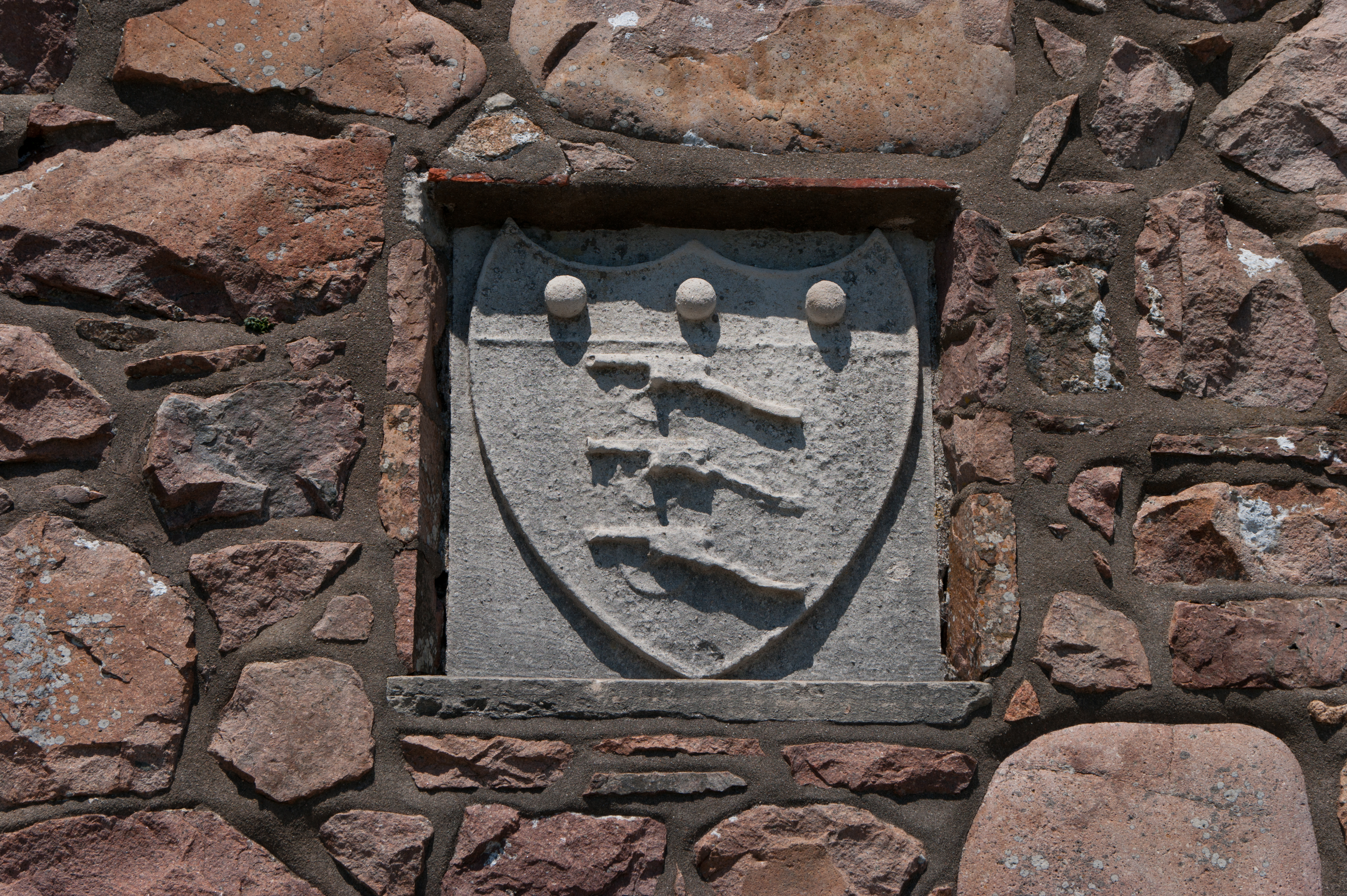 Plaque at Elizabeth Castle with 3 cannons.